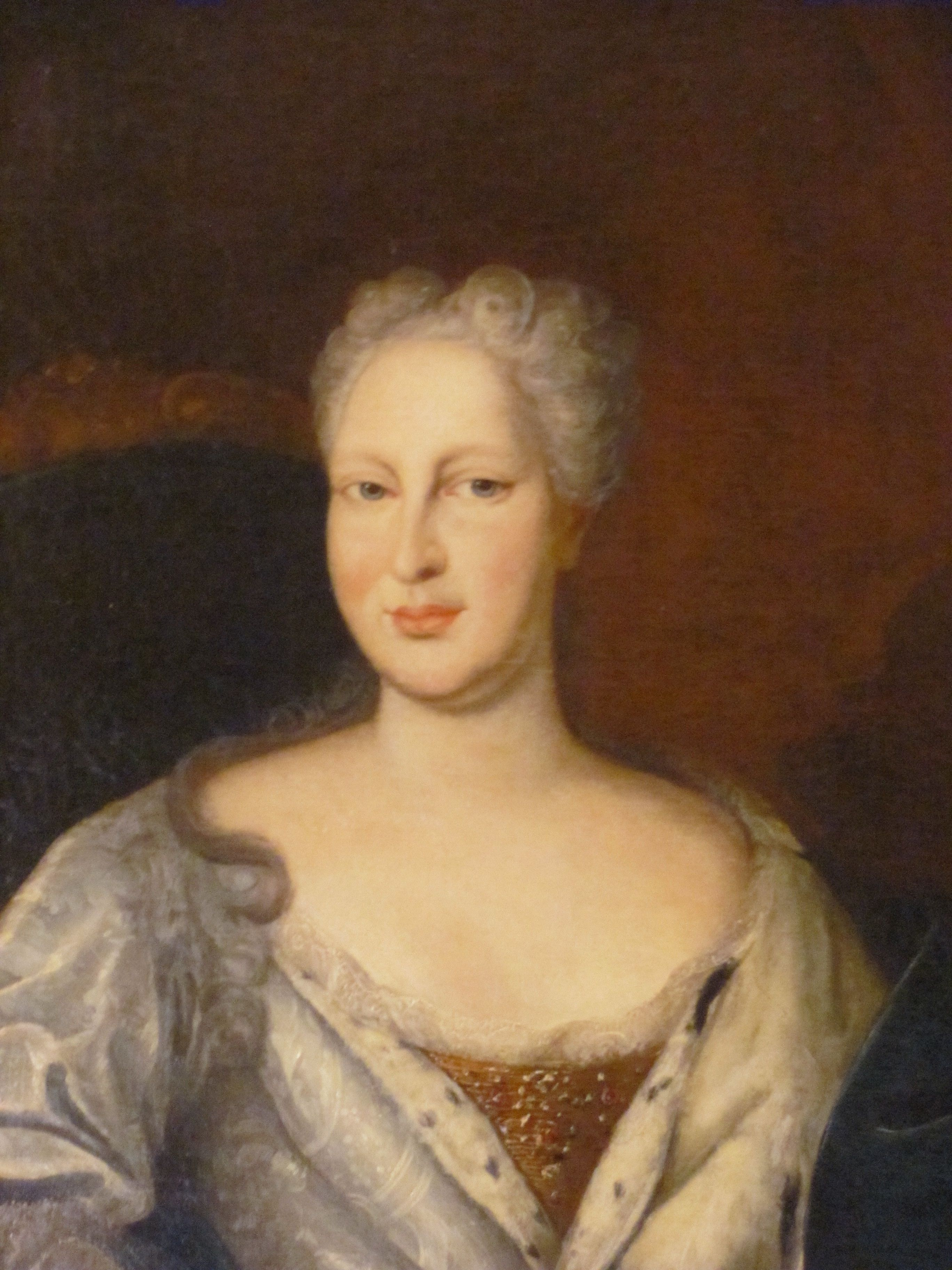 Portrait of Princess Dorothea Friederike of Brandenburg-Ansbach (1676-1731), wife of Johann Reinhard III, Count of Hanau-Lichtenberg